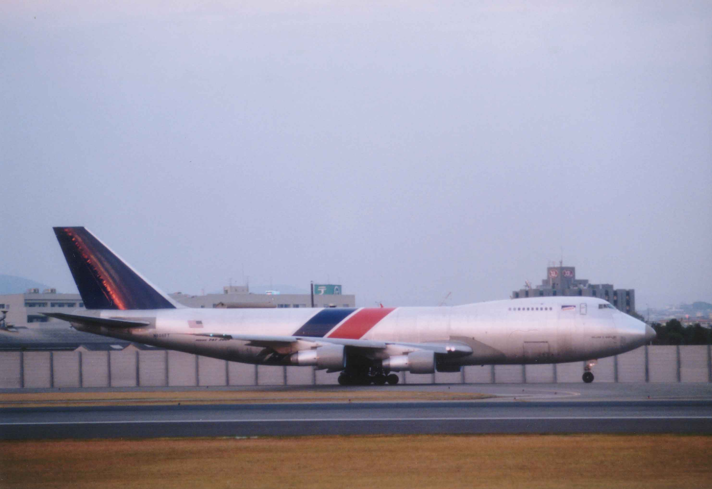 It is Flying Tiger Line CARGO which it photographed in Itami, Osaka Airport.